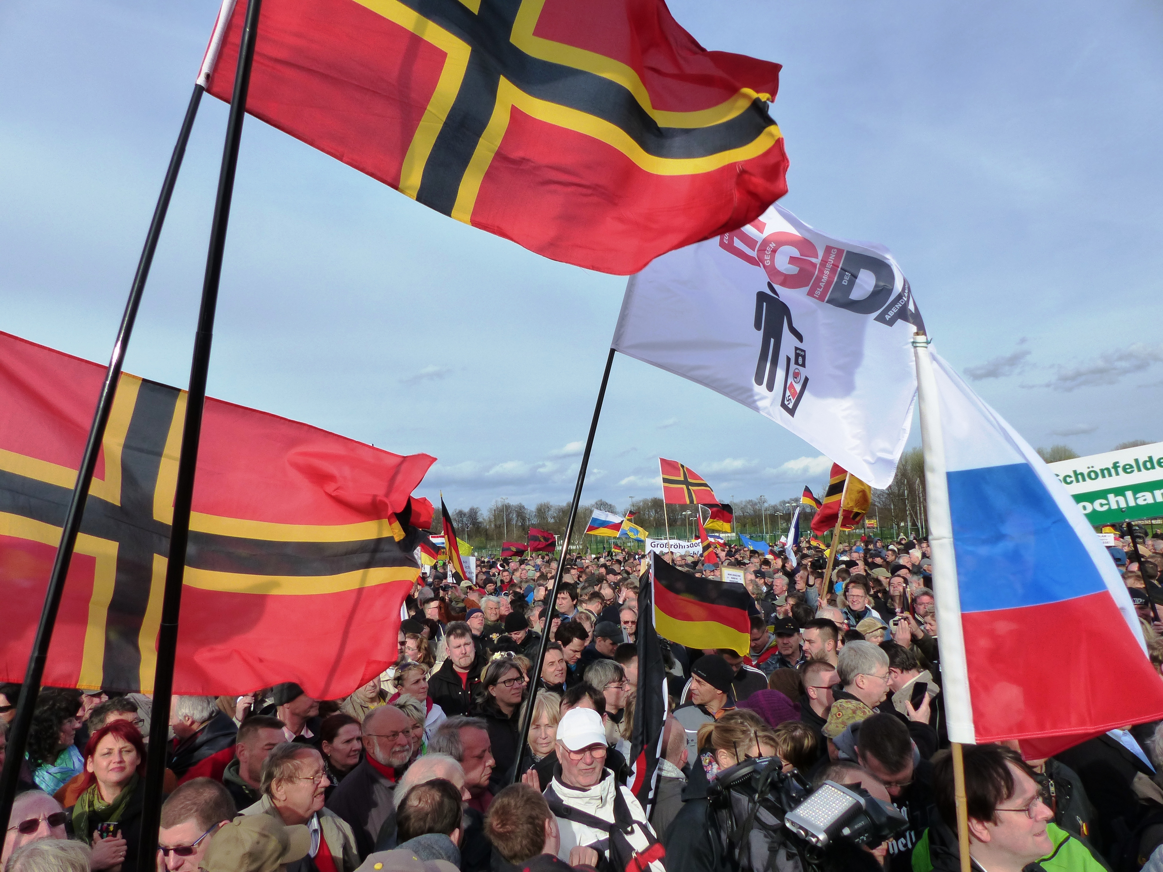 Pegida Fahnen Flaggen 13.4.2015 in Dresden in der Flutrinne